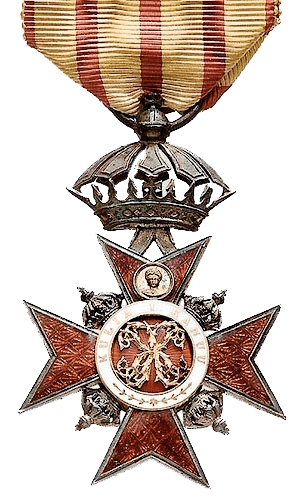 Badge of Companion of the Order of Kapiolani Source: [1] Author: Ianwatts